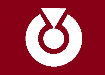 Flag of Shirahama Wakayama